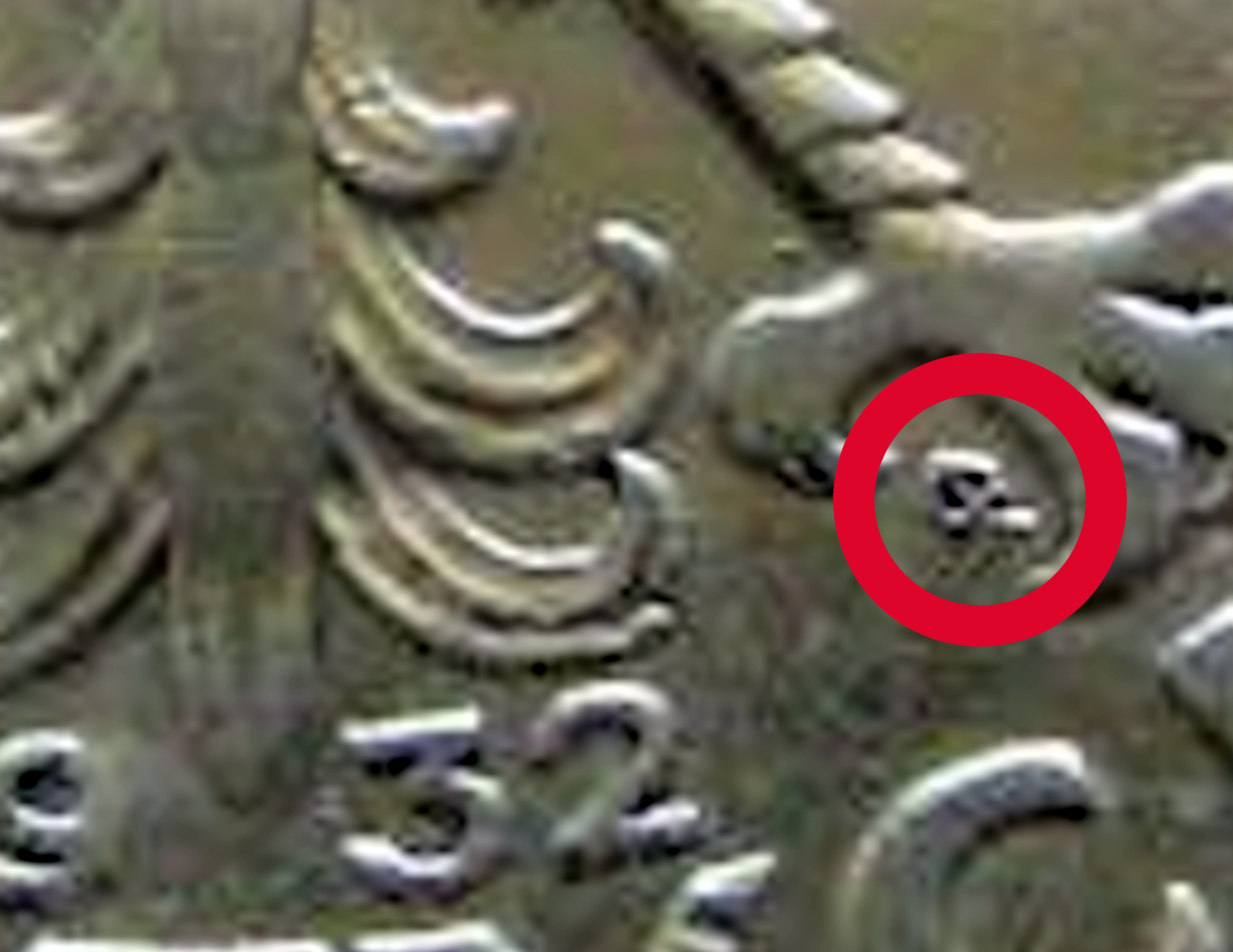 Warsaw Mint mark Proof of the interwar period - coat of arms Kościesza